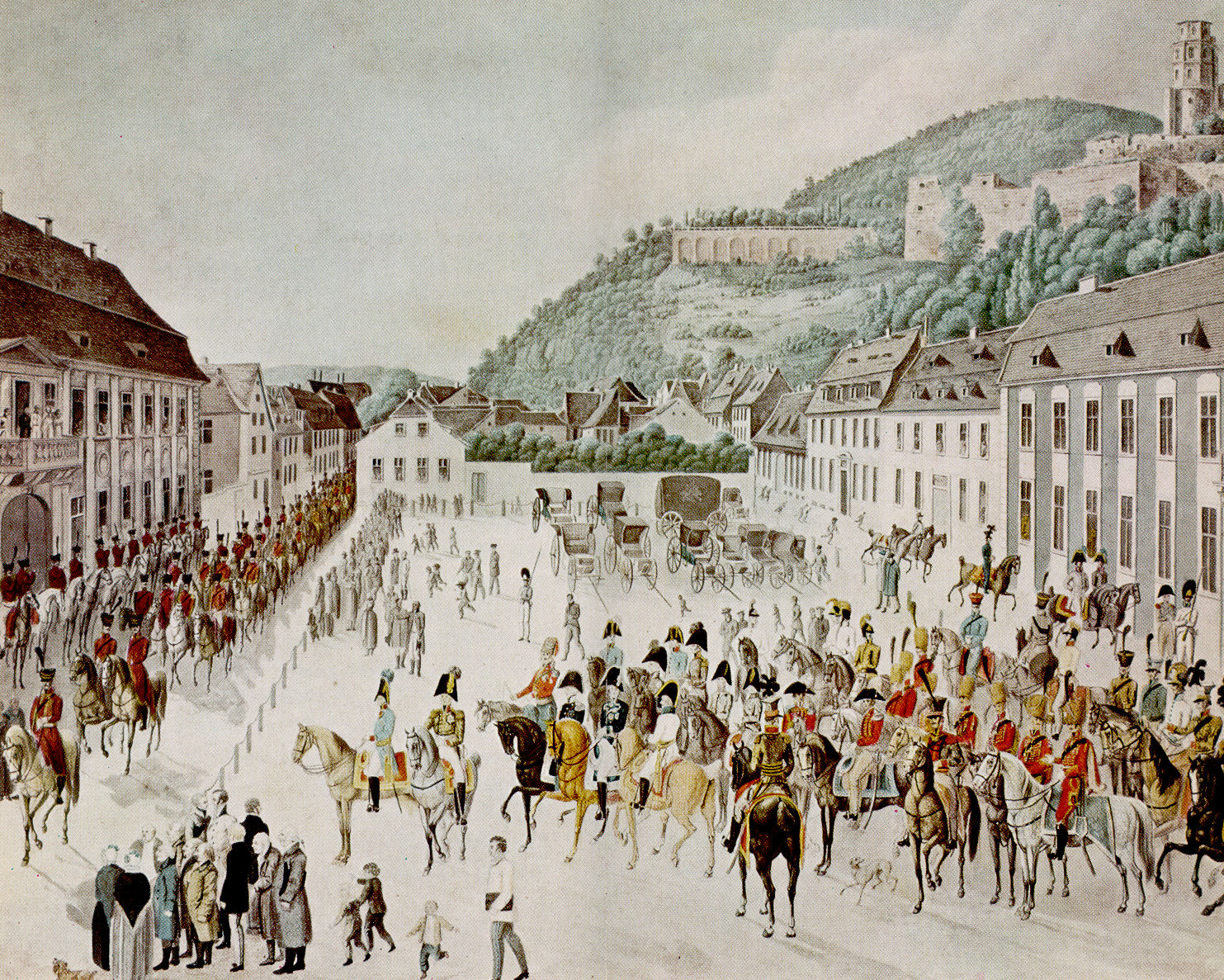 historic views of Heidelberg, Germany